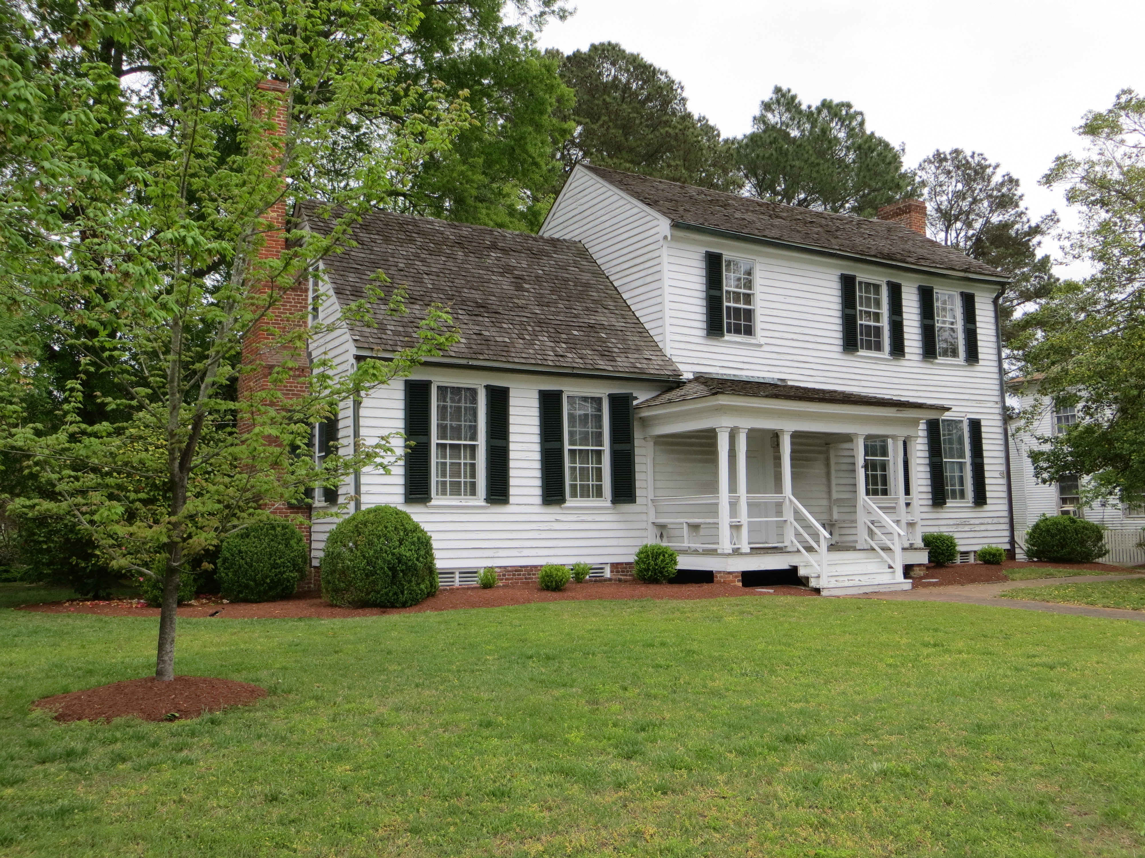 Rochelle-Prince House, 22371 Main Street, Courtland, Virginia